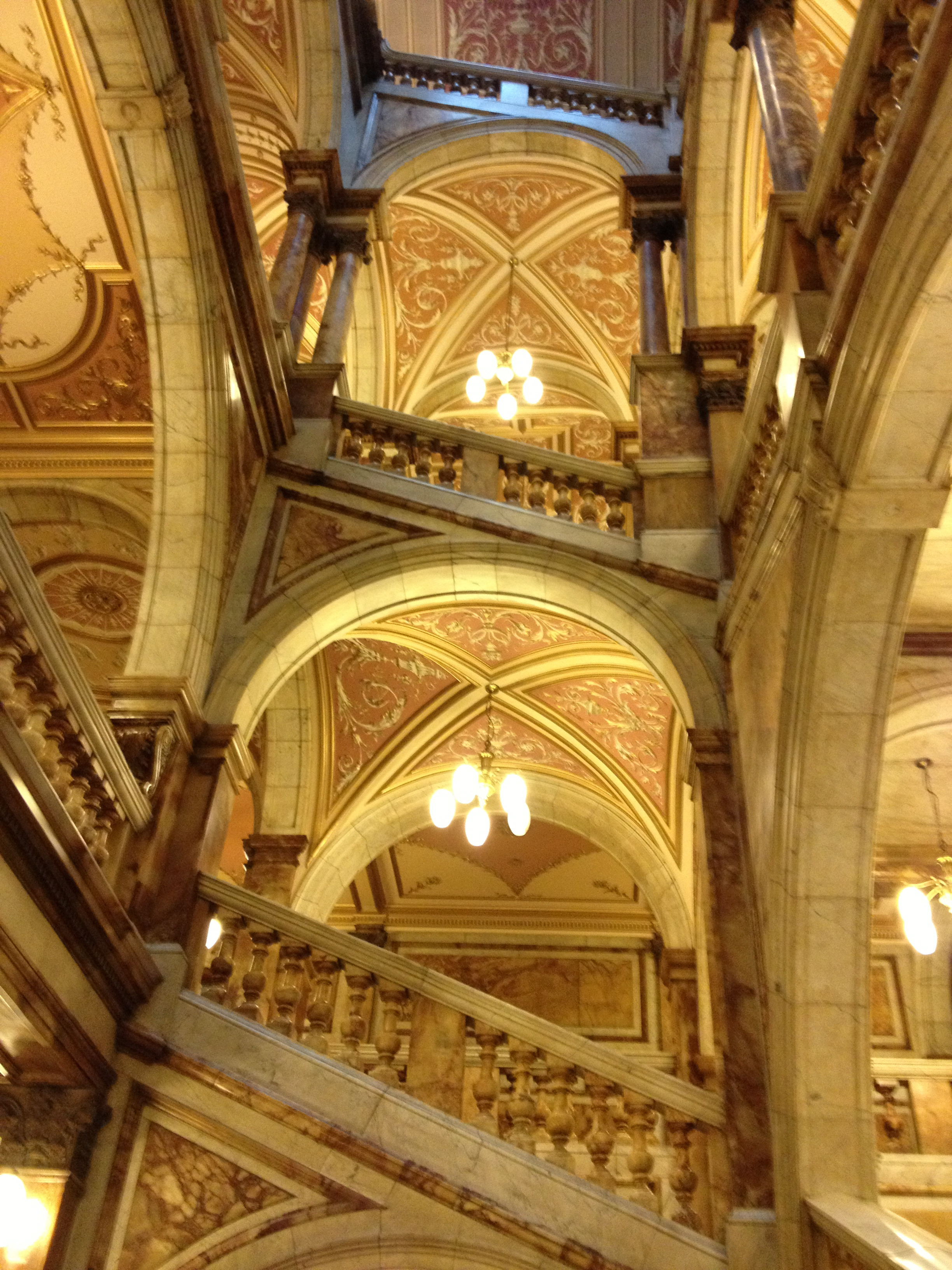 Scotland, Glasgow City Chambers.